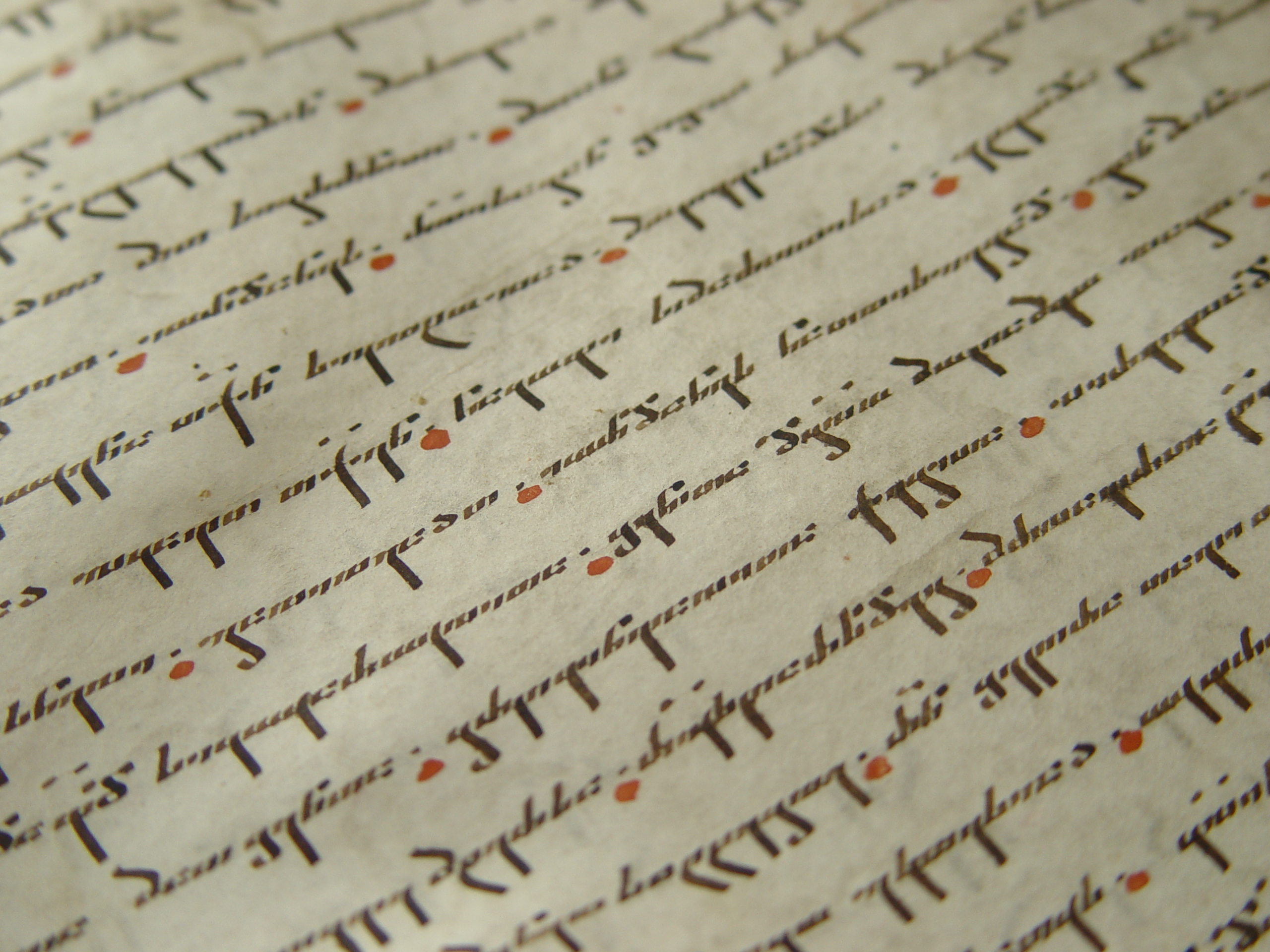 Manuscript of a Georgian calligrapher Mikael Modrekili